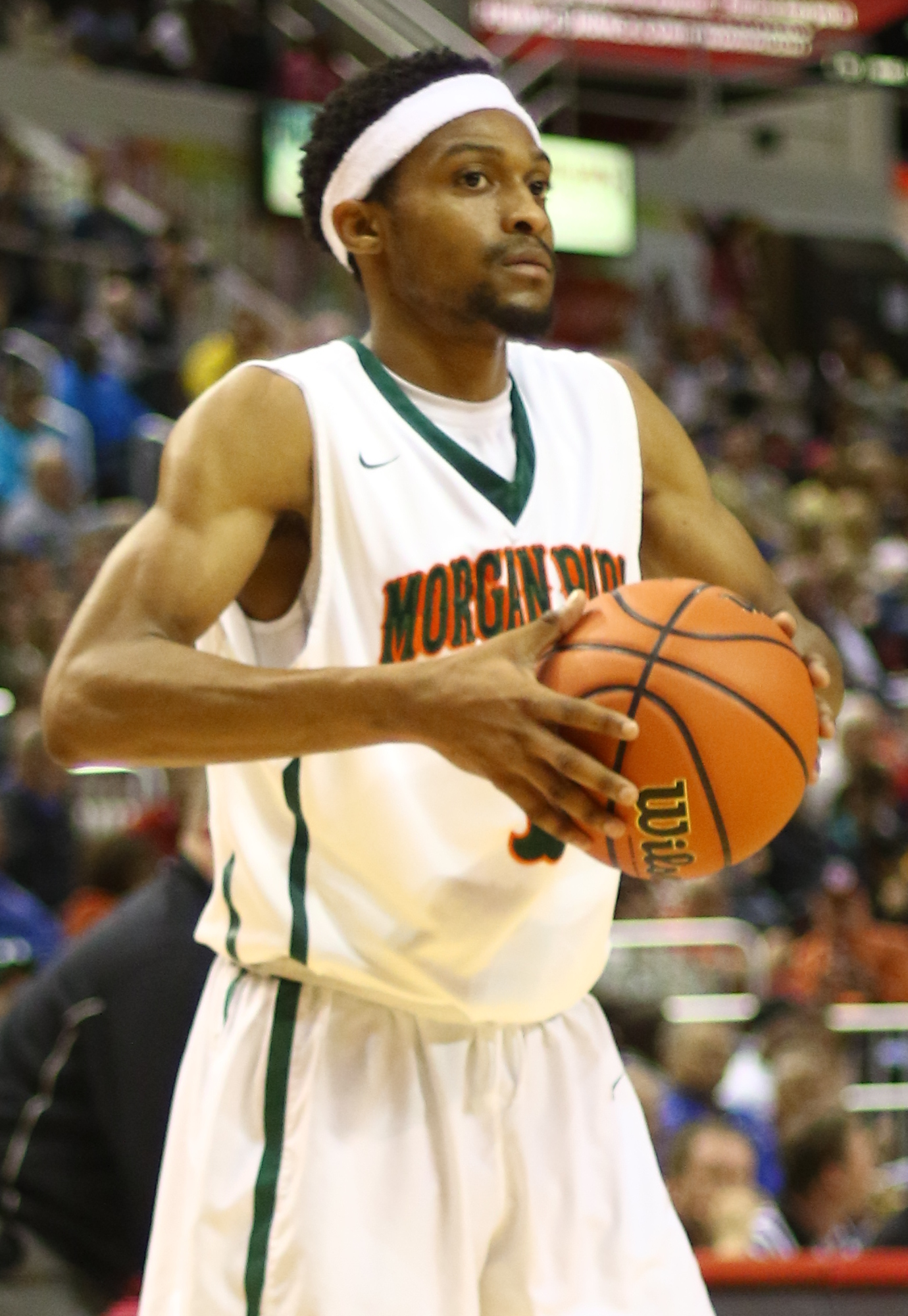 Marcus LoVett in the 2015-03-21 Morgan Park v. Lutheran Class 3A consolation basketball game